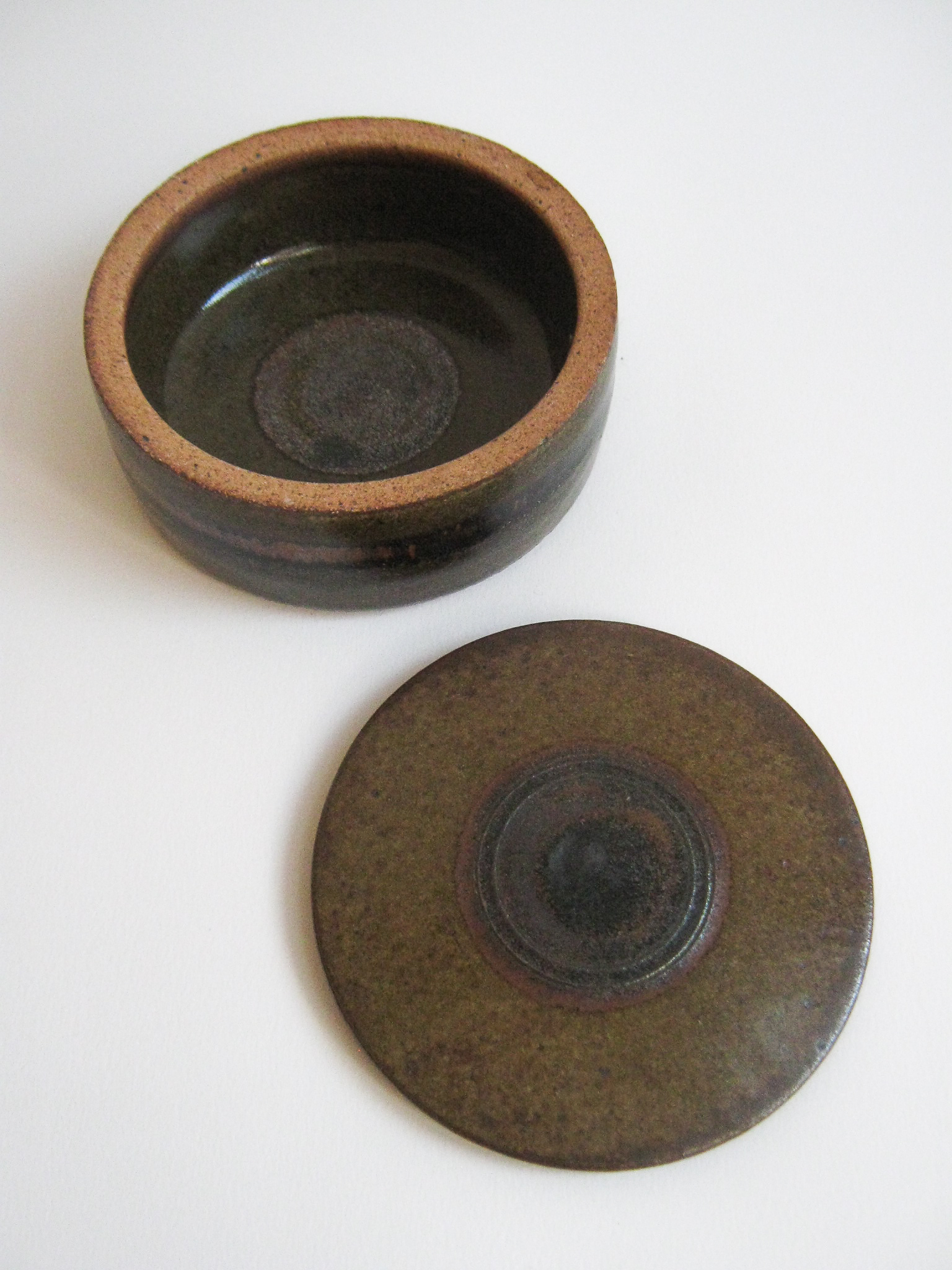 Stoneware canister by Ian Sprague 1960s; photographed in St Kilda Victoria